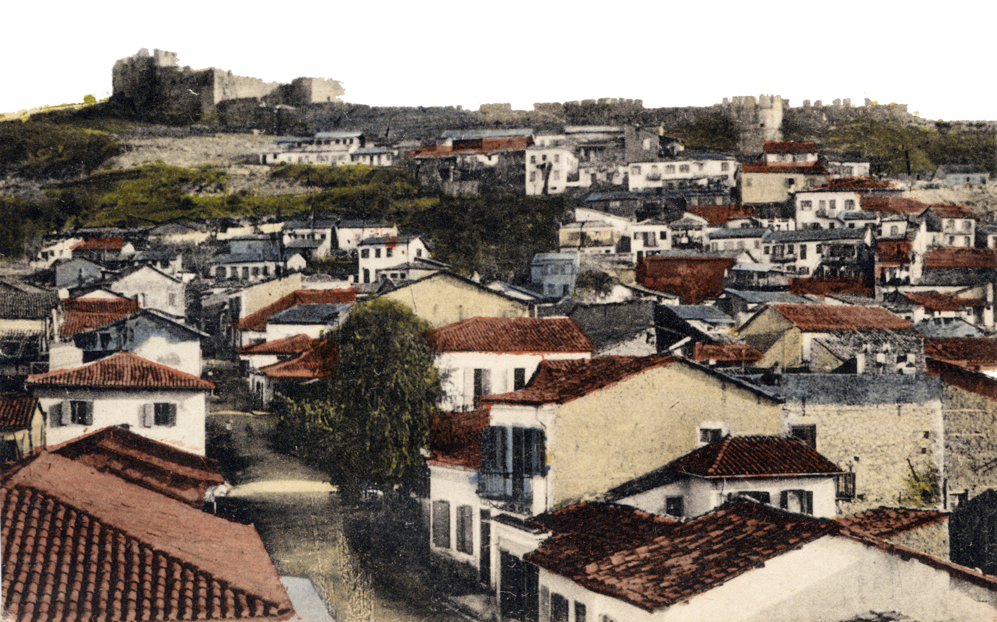 Patras